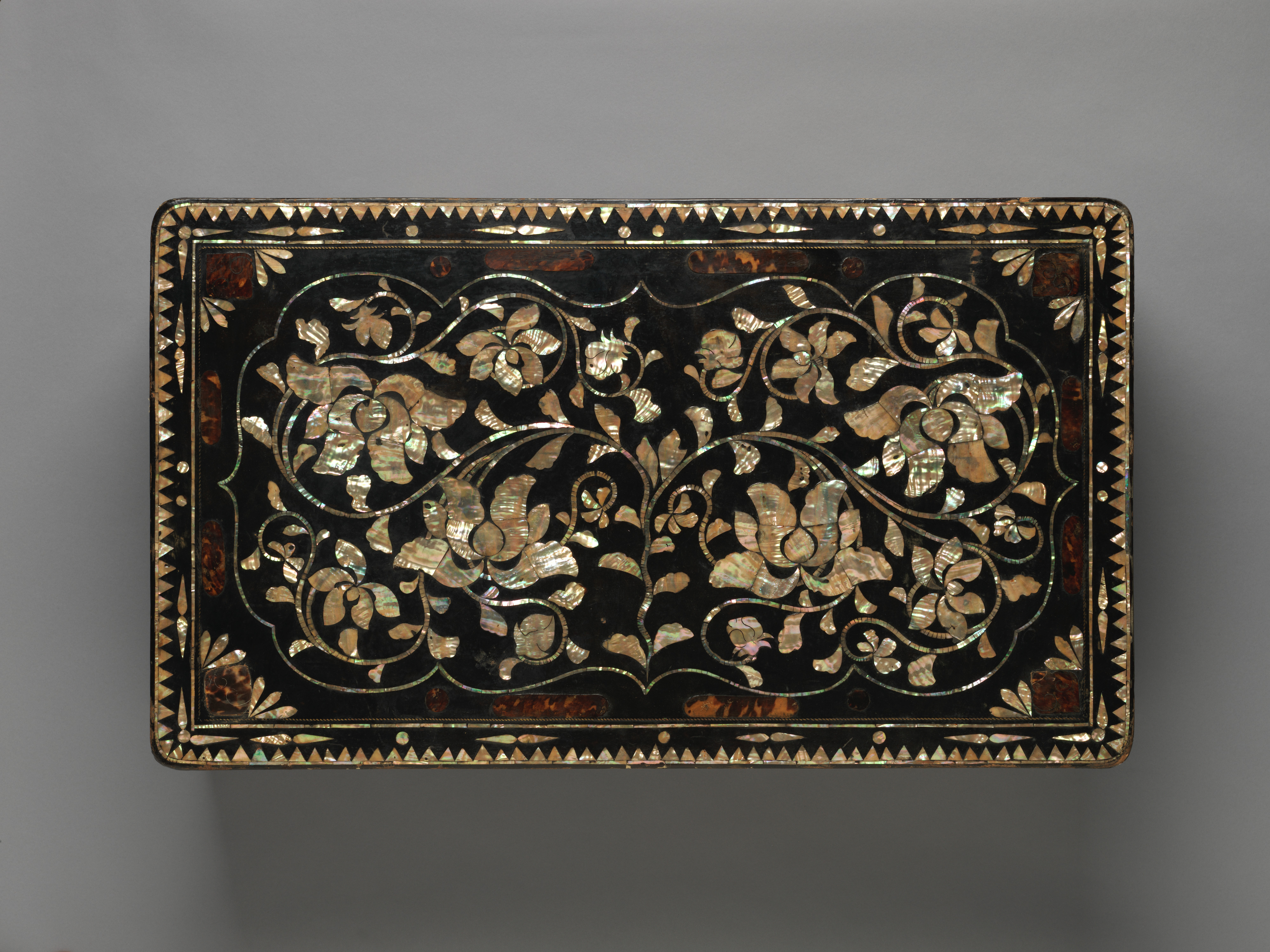 Korea; Clothing box; Lacquer